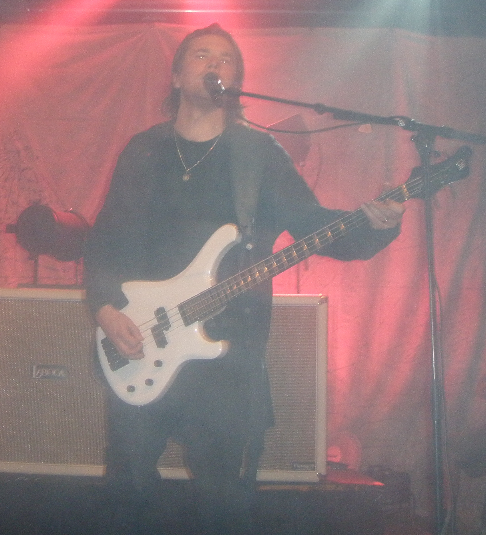 Eero Heinonen with The Rasmus on January 24, 2009 at Brew House in Göteborg, Sweden.